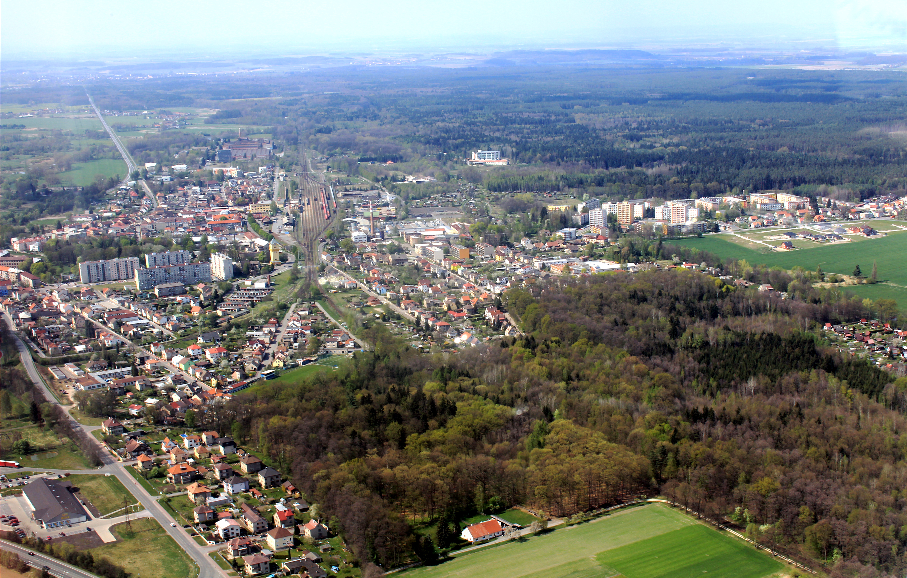 Town Týniště nad Orlicí from air, eastern Bohemia, Czech Republic